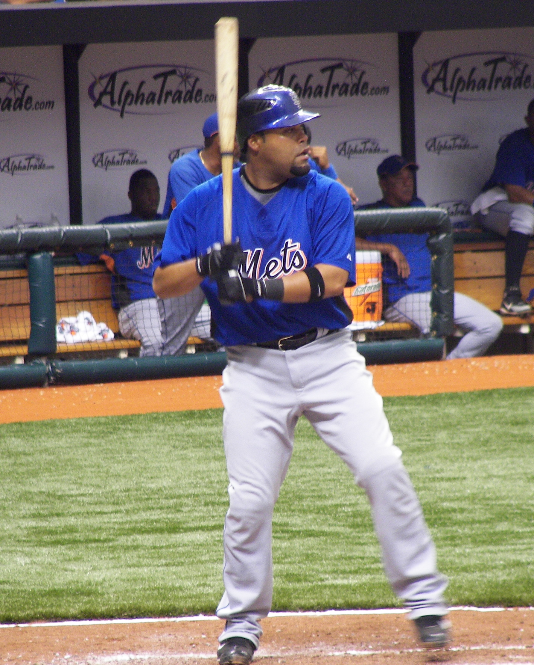 Mets catcher Ramón Castro during a Mets/Devil Rays spring training game at Tropicana Field in St. Petersburg, Florida.